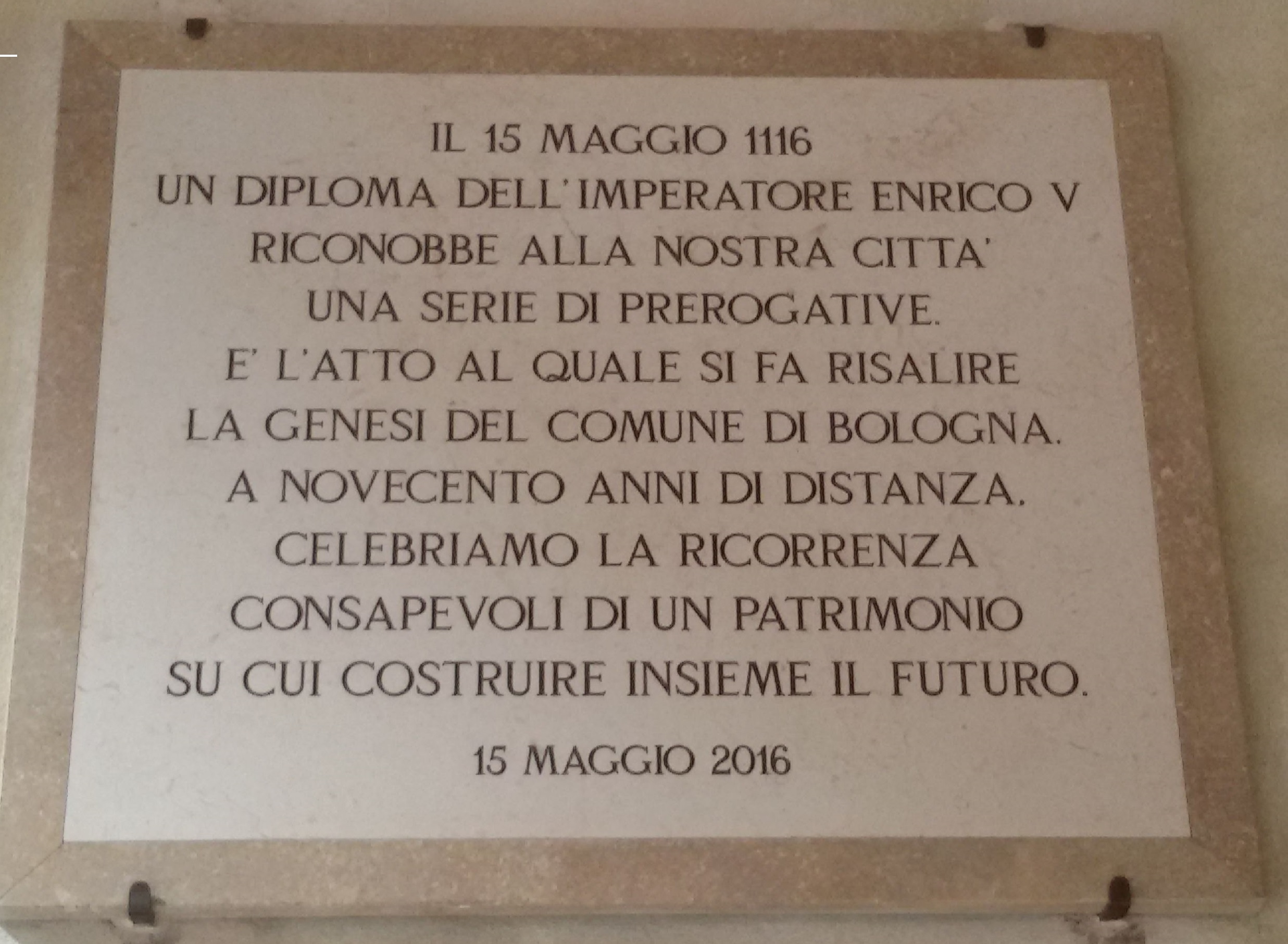 Commemorative plaque inaugurated at Palazzo d'Accursio (Bologna) in 2016 on occasion of the Ninth Centenary from the enactment of the Diploma by Henri V in 1116